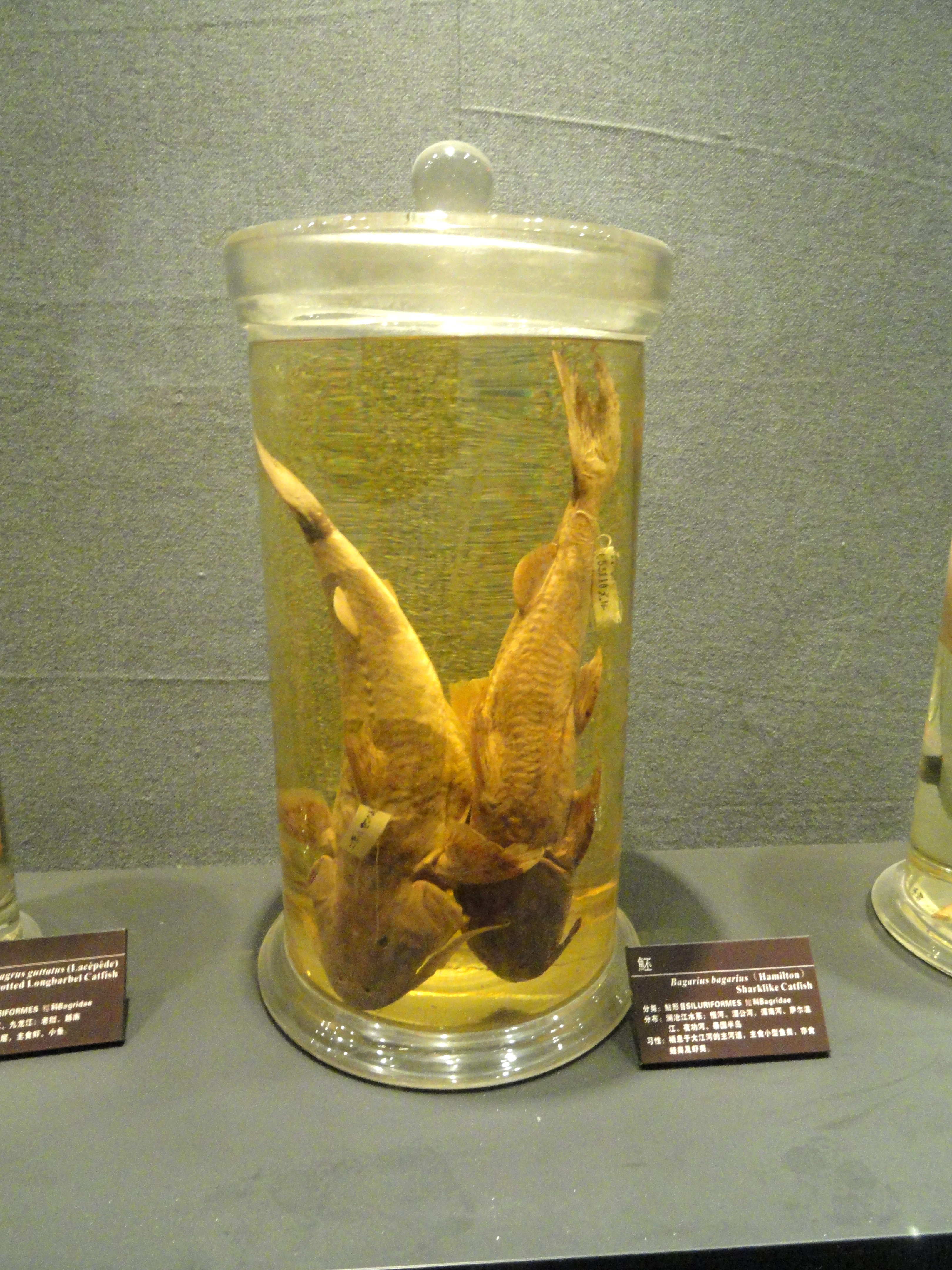 Preserved specimens in the Kunming Natural History Museum of Zoology (昆明动物博物馆), Kunming, Yunnan, China.